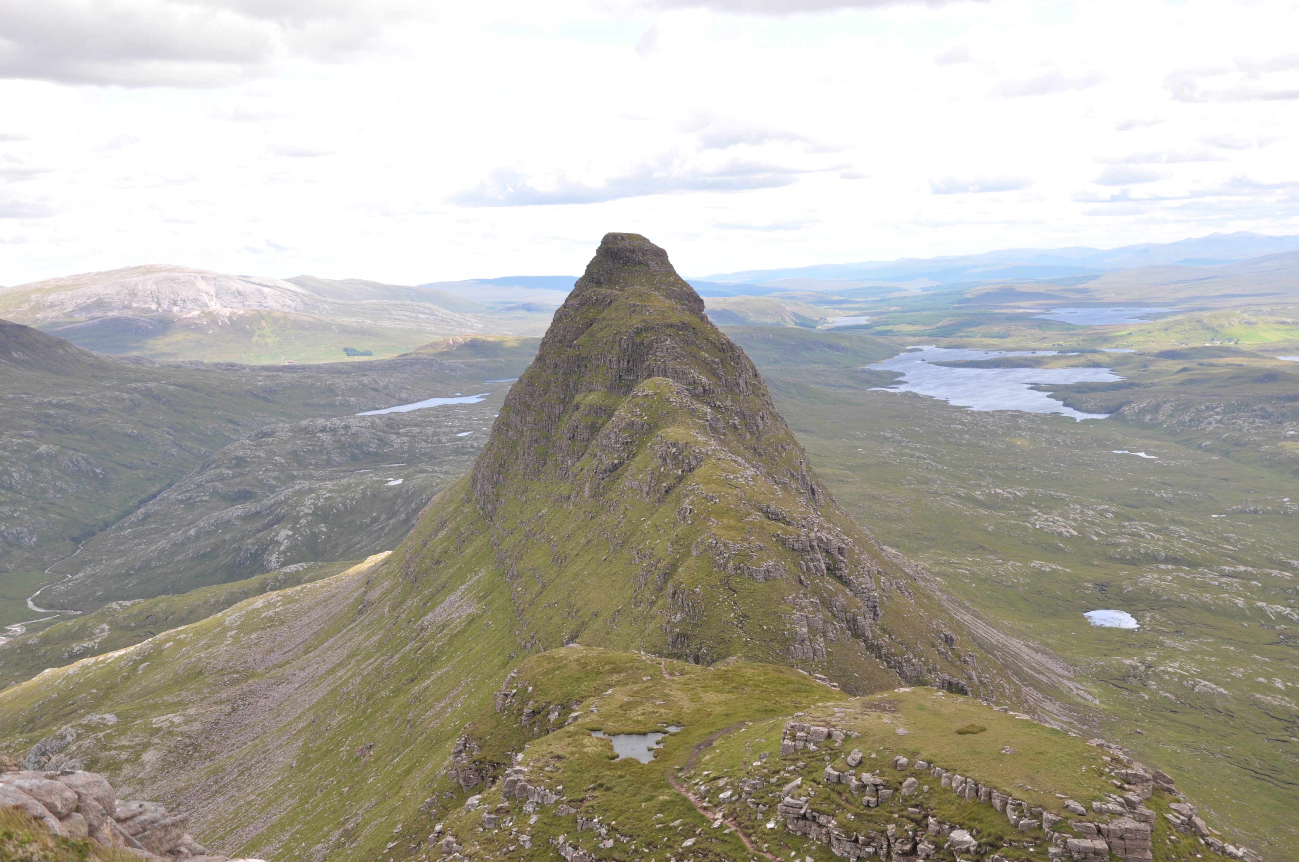 Suilven: Meall Meadhonach seen from Caisteal Liath, August 2009